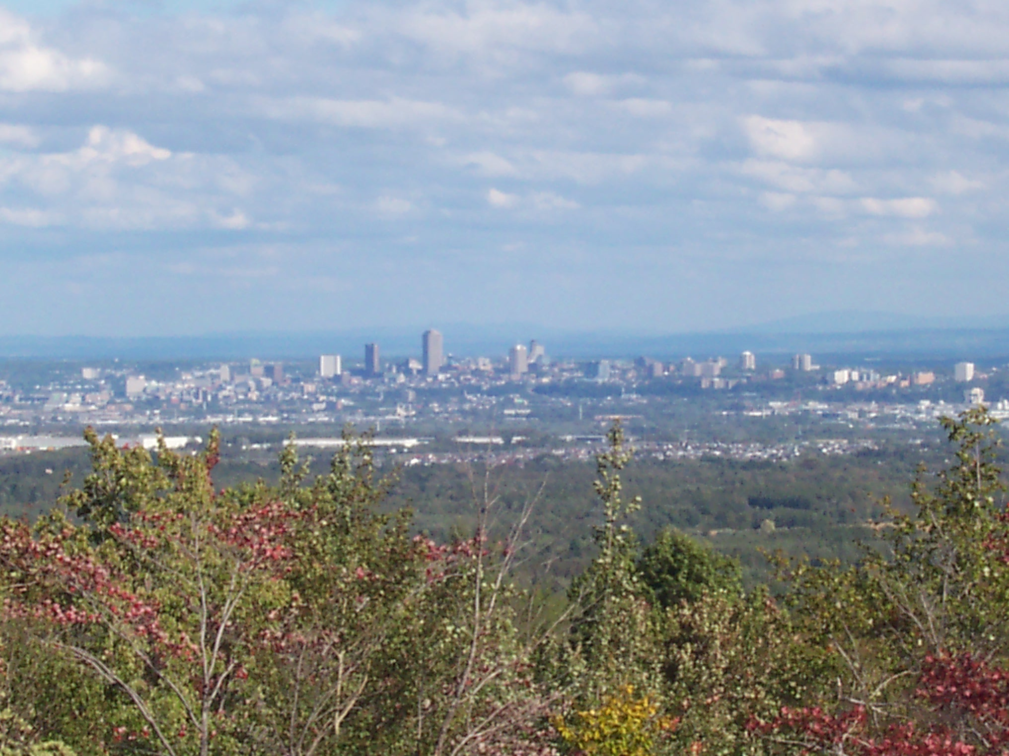 Downtown Quebec City (Quebec, Canada) as seen from "Base de Plein-Air La Découverte", Val-Belair district.